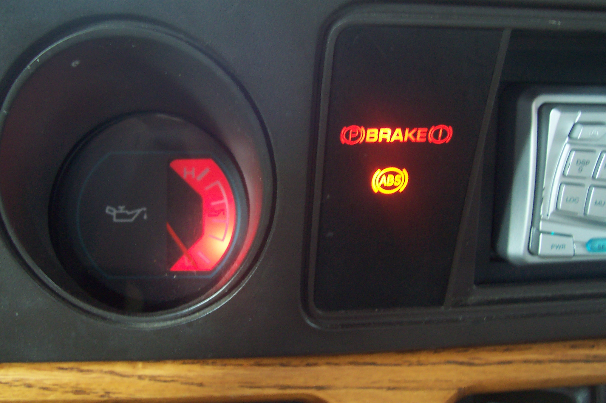 Idiot lights in a '96 Dodge Ram Van. Example of the graphical idiot lights, as well as a gauge warning. Left side is the oil pressure gauge; when the pressure is beyond certain bounds, the gauge is illuminated in red. Low pressure is from the vehicle not started, but left in "On" mode. Right side is two graphical idiot lights, "Parking Brake" and "Anti-Lock Brake Failure", both as a result of a failed speed sensor